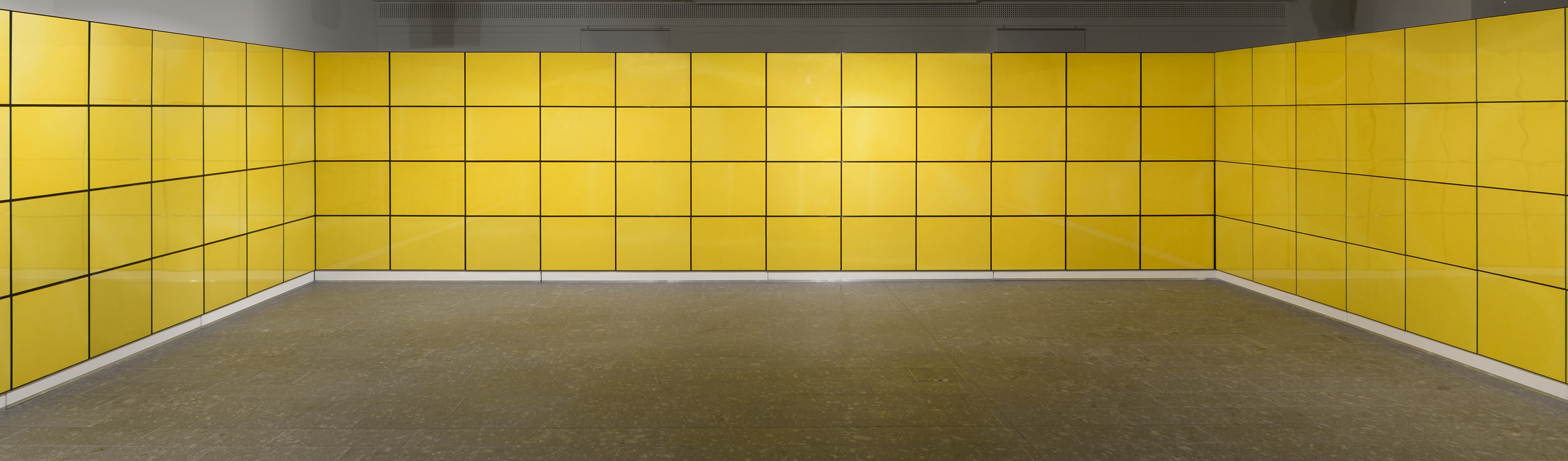 144 paintings from the "Ghialar" collection exposed at the Istitut Ladin Micura de Rü in San Martin de Tor.